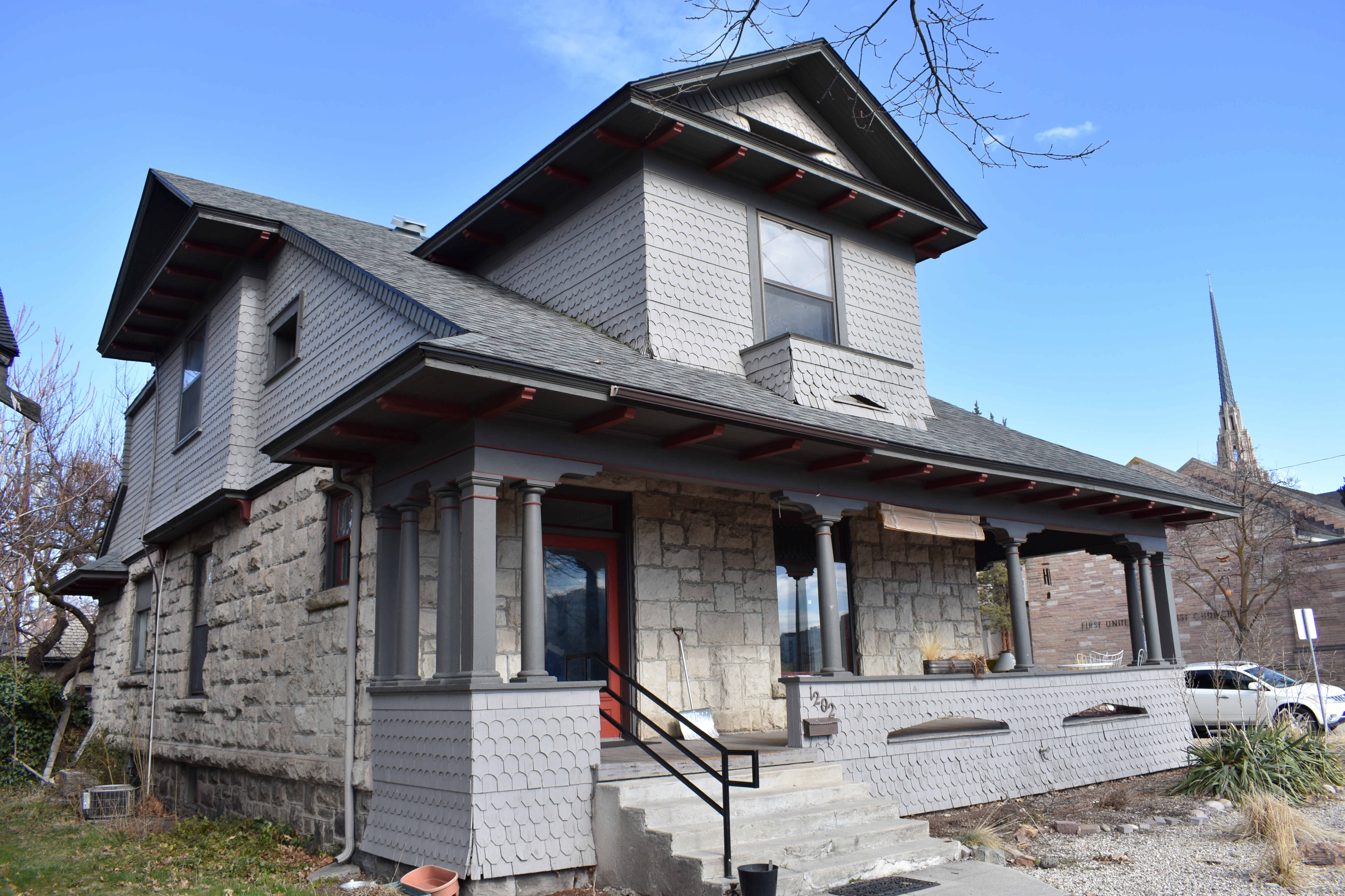 The J.N. Wallace House (1903) in Boise, Idaho, was designed by Tourtellotte & Co. and is listed on the National Register of Historic Places.